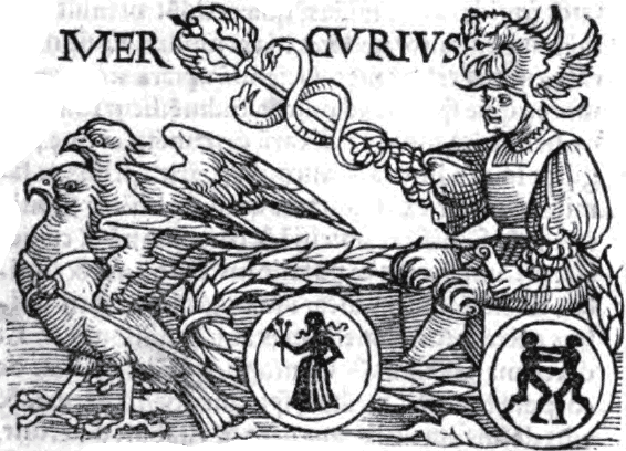 Mercury, from Guido Bonatti Liber Astronomiae